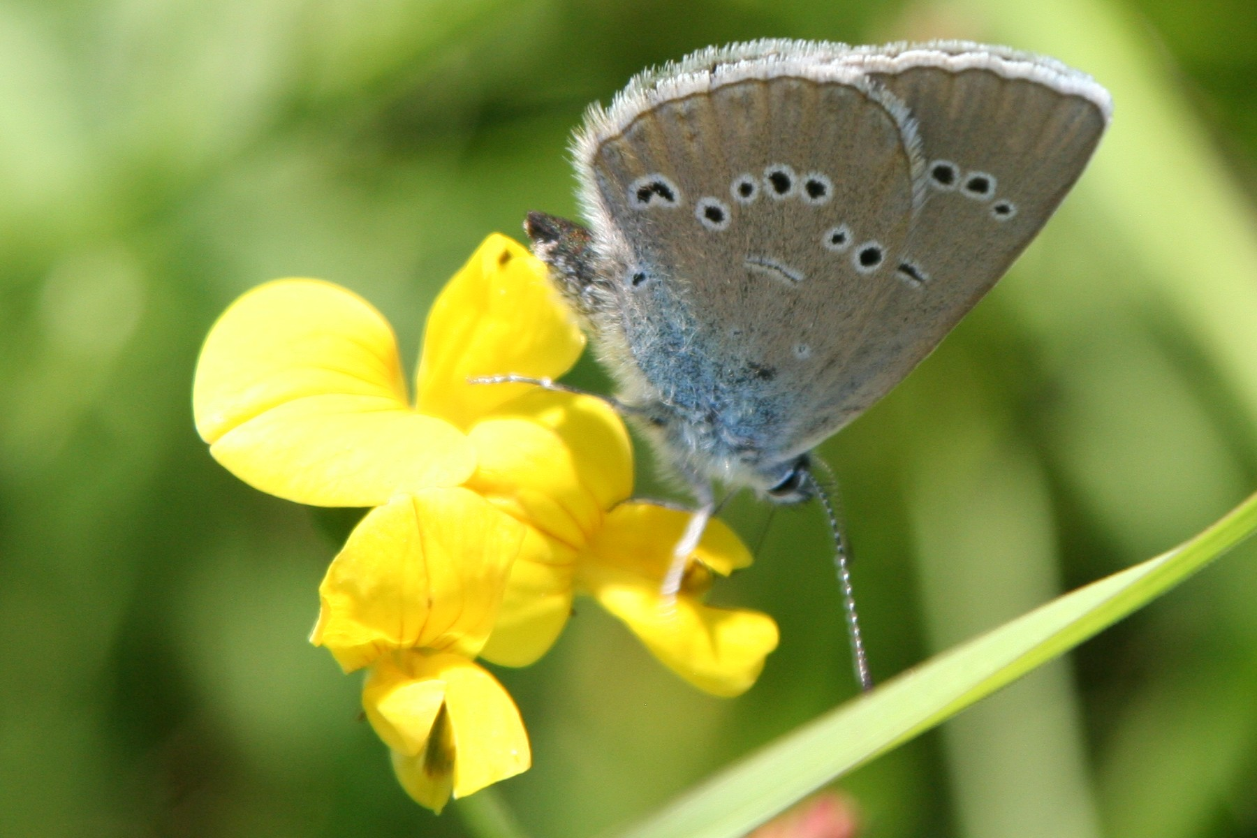 A female of the Mazarine Blue butterfly (Polyommatus semiargus), photographed on a meadow in Schwäbisch Hall-Wackershofen